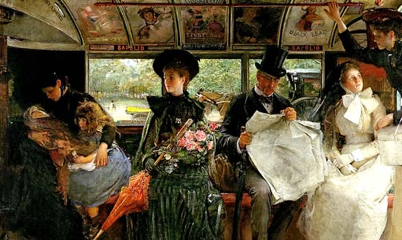 The Bayswater Omnibus